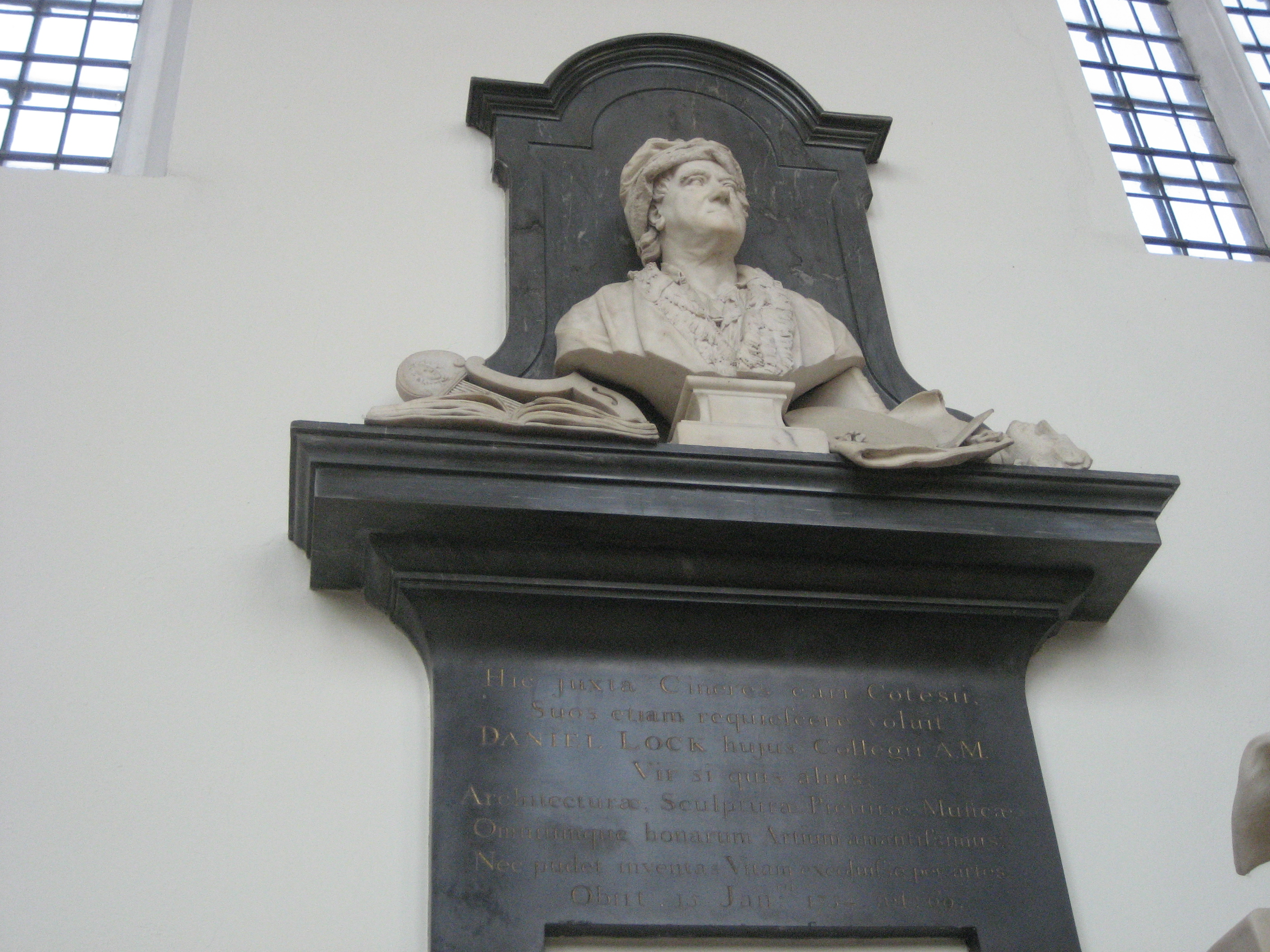 Bust of Daniel Lock by Louis-François Roubiliac in Trinity College Chapel, Cambridge, England (UK)